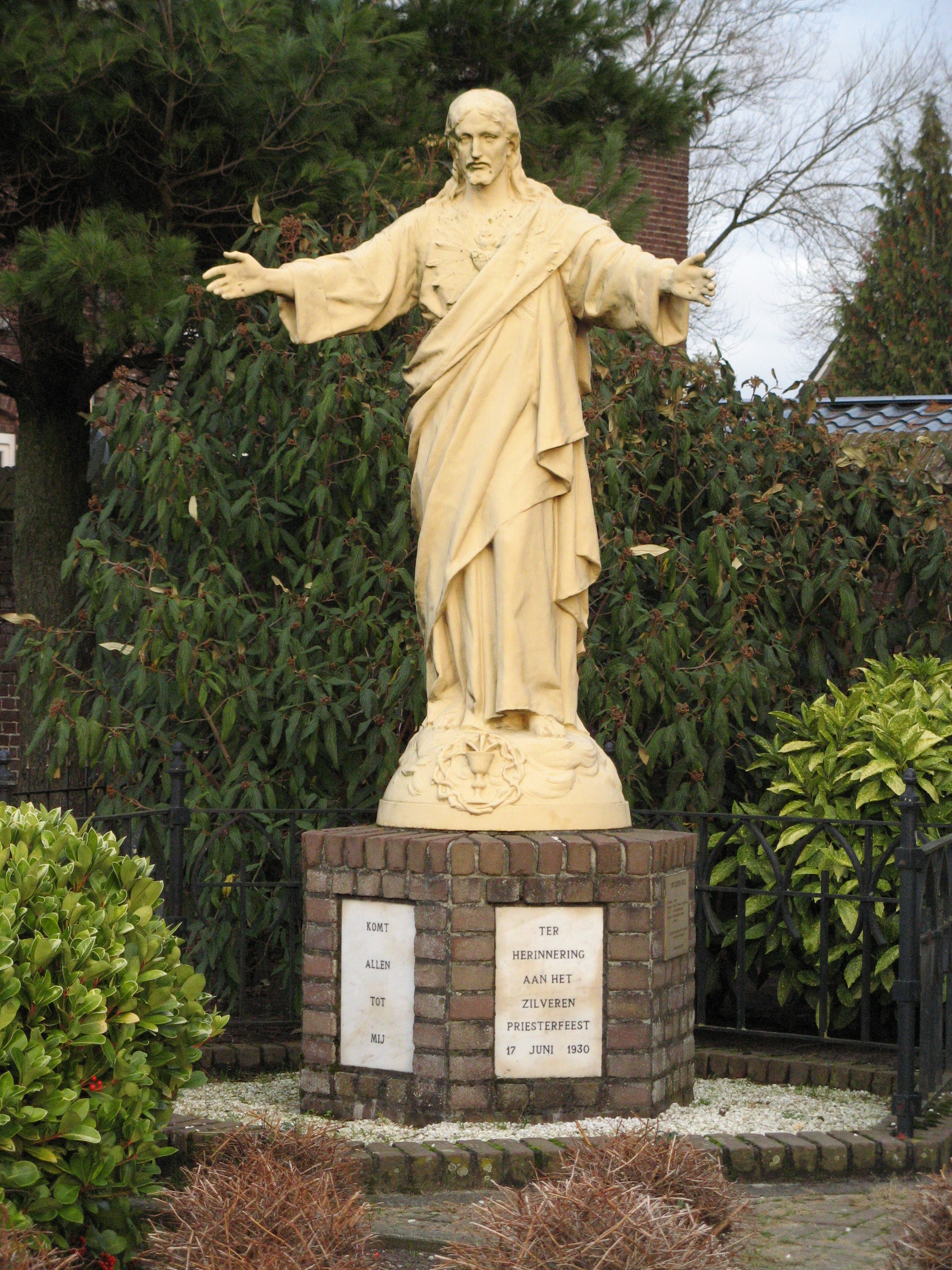 Sacred Heart statue by Jules Déchin in Oploo (NL)